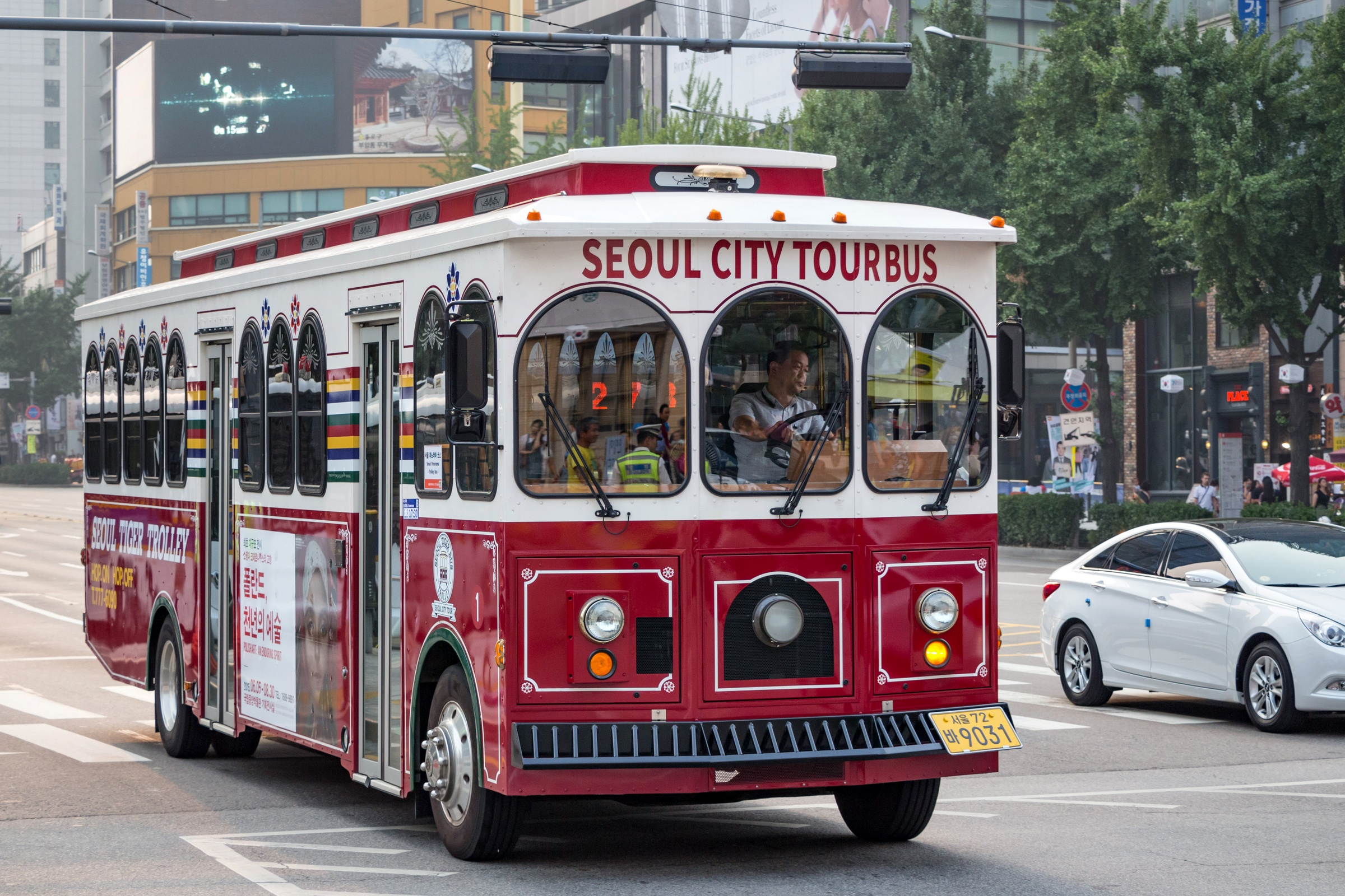 Trolley replica bus in Seoul, Korea